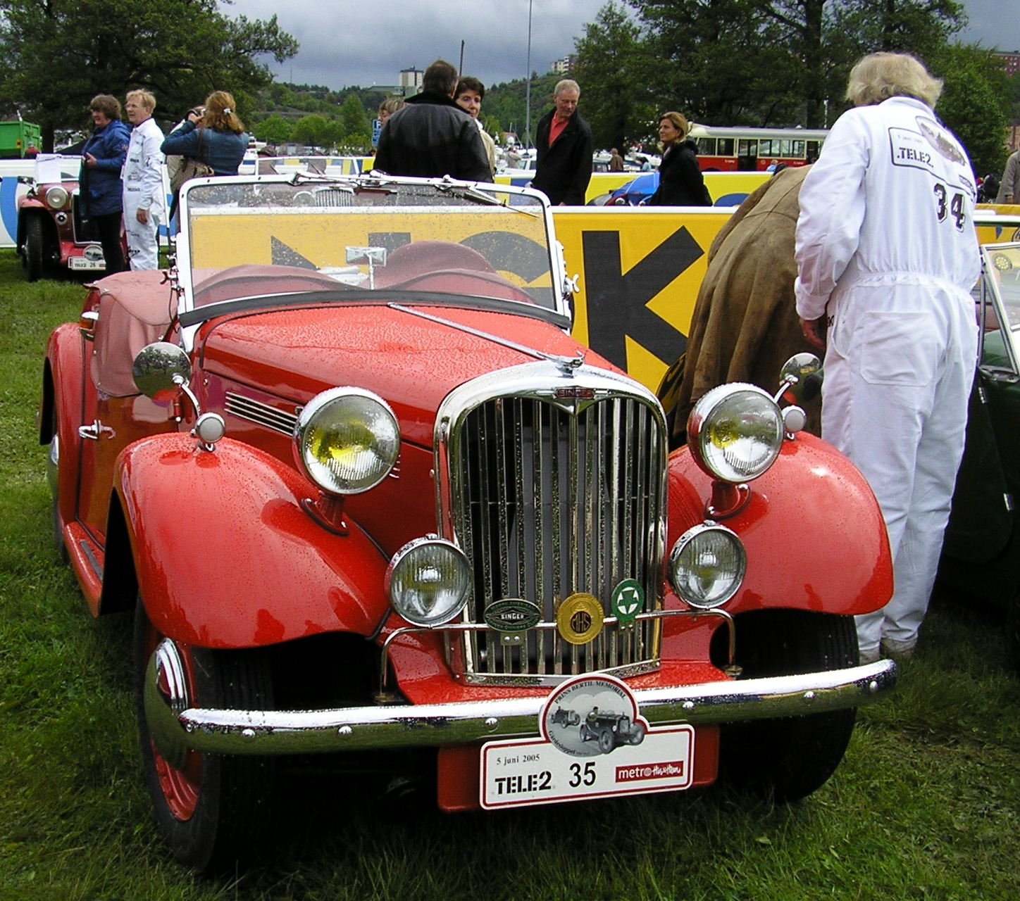 A 1952 Singer SM Roadster in Sweden.